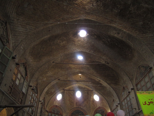 this is a part of arak old bazar